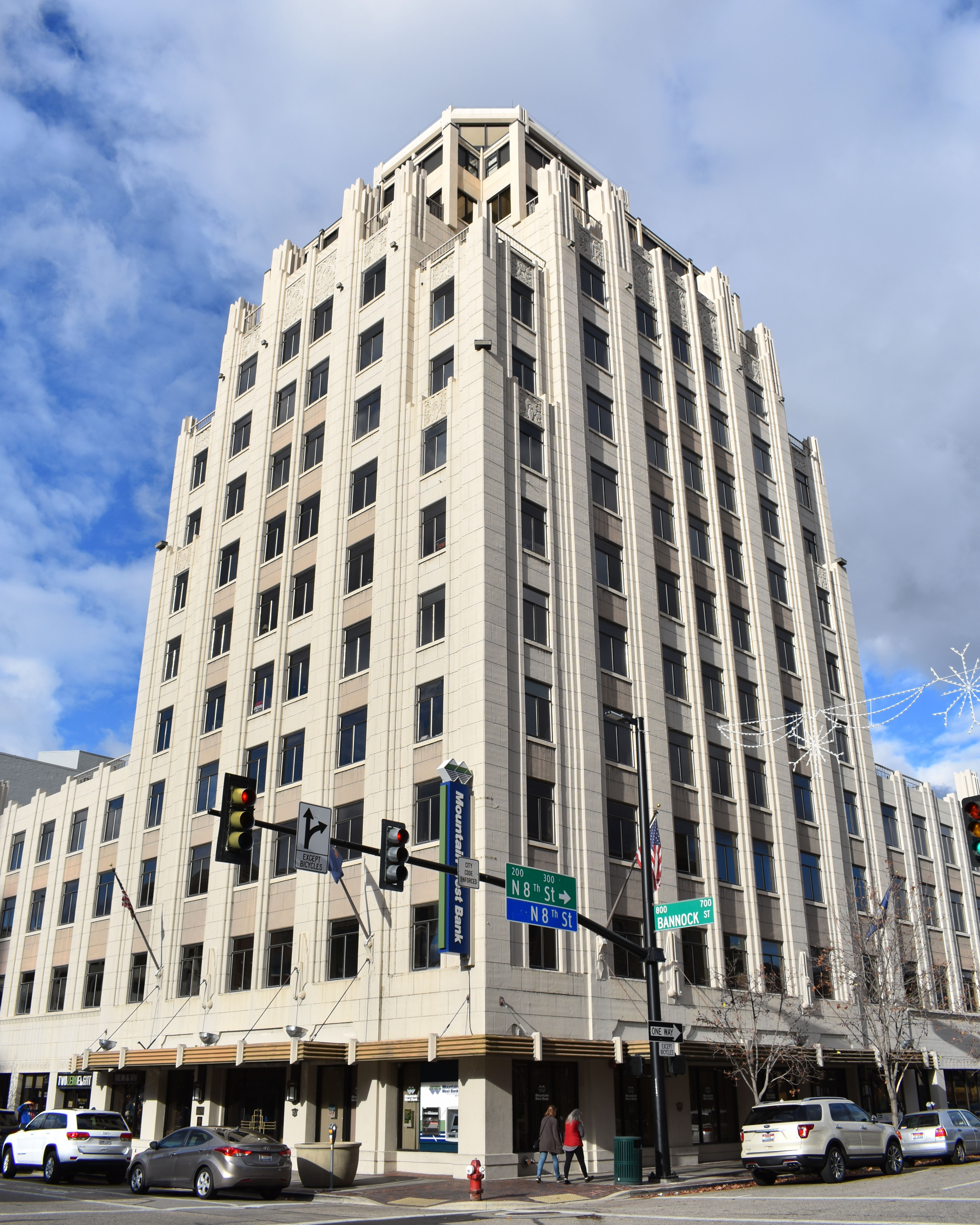 The Hotel Boise (1930), also known as the Hoff Building, was designed by Tourtellotte & Hummel and is part of the Boise Capitol Area District.